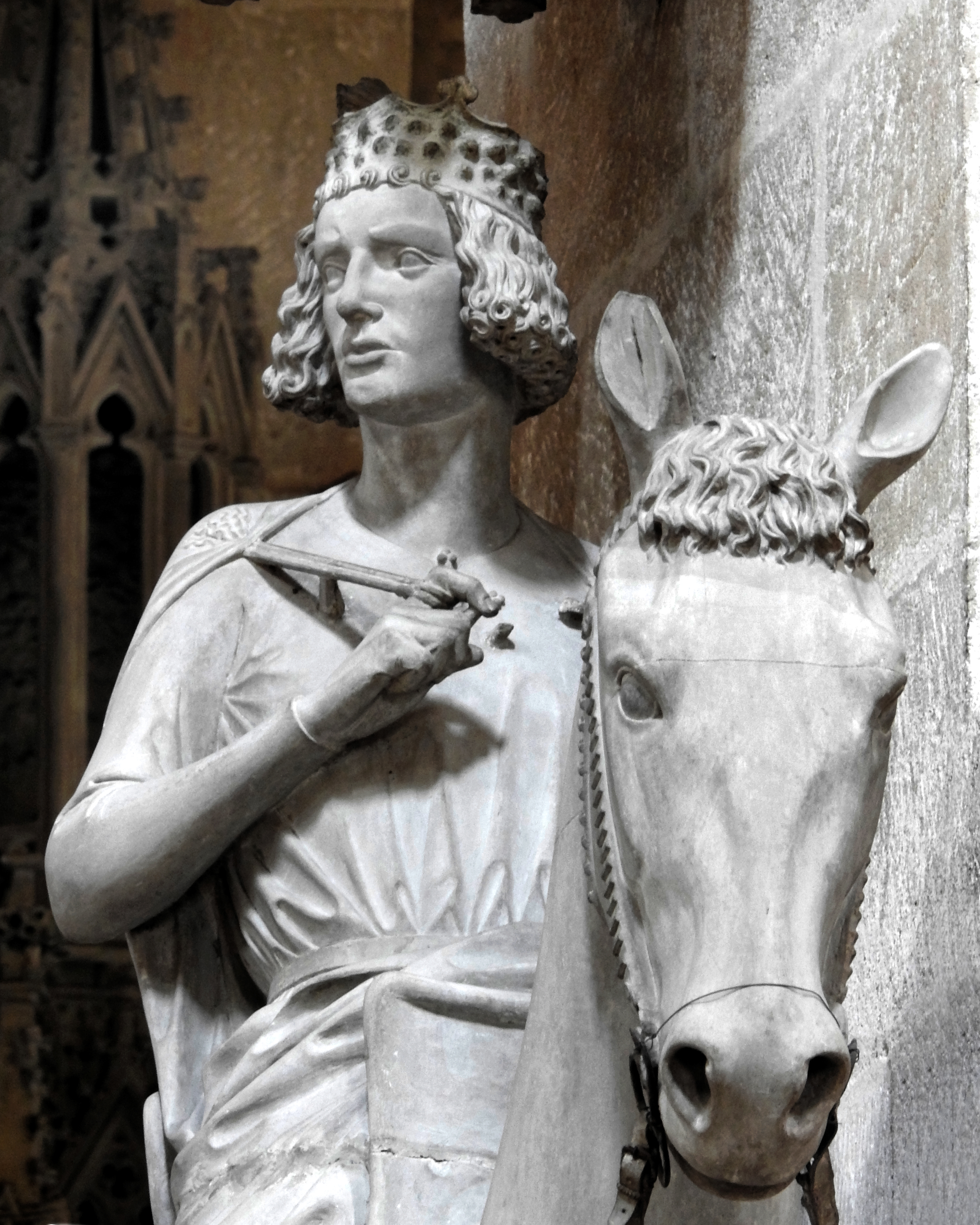 The Bamberg Cathedral St. Peter und St. Georg.